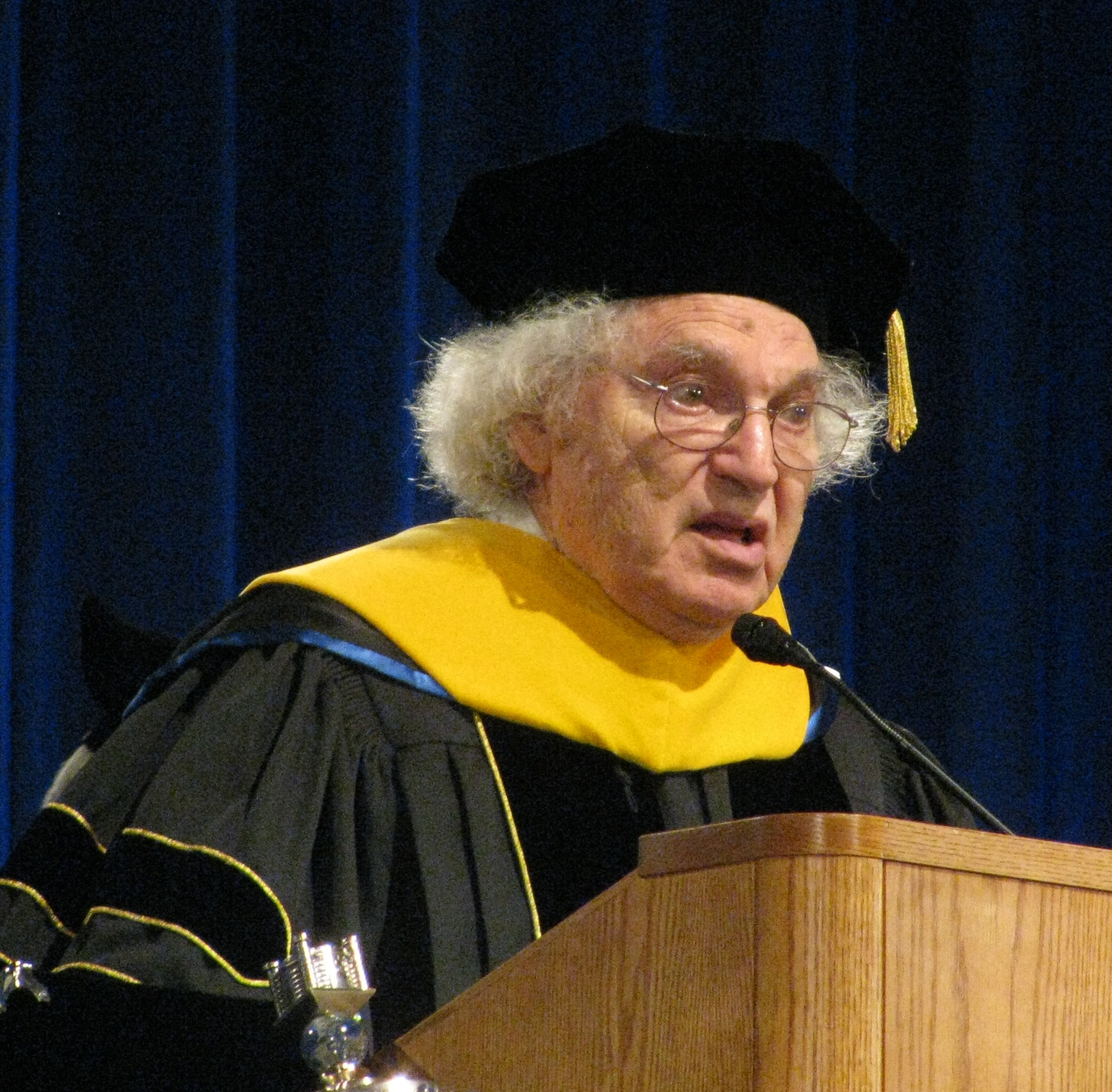 Herbert Hauptman receiving an honrary degree at the 2009 University at Buffalo commencement ceremony.